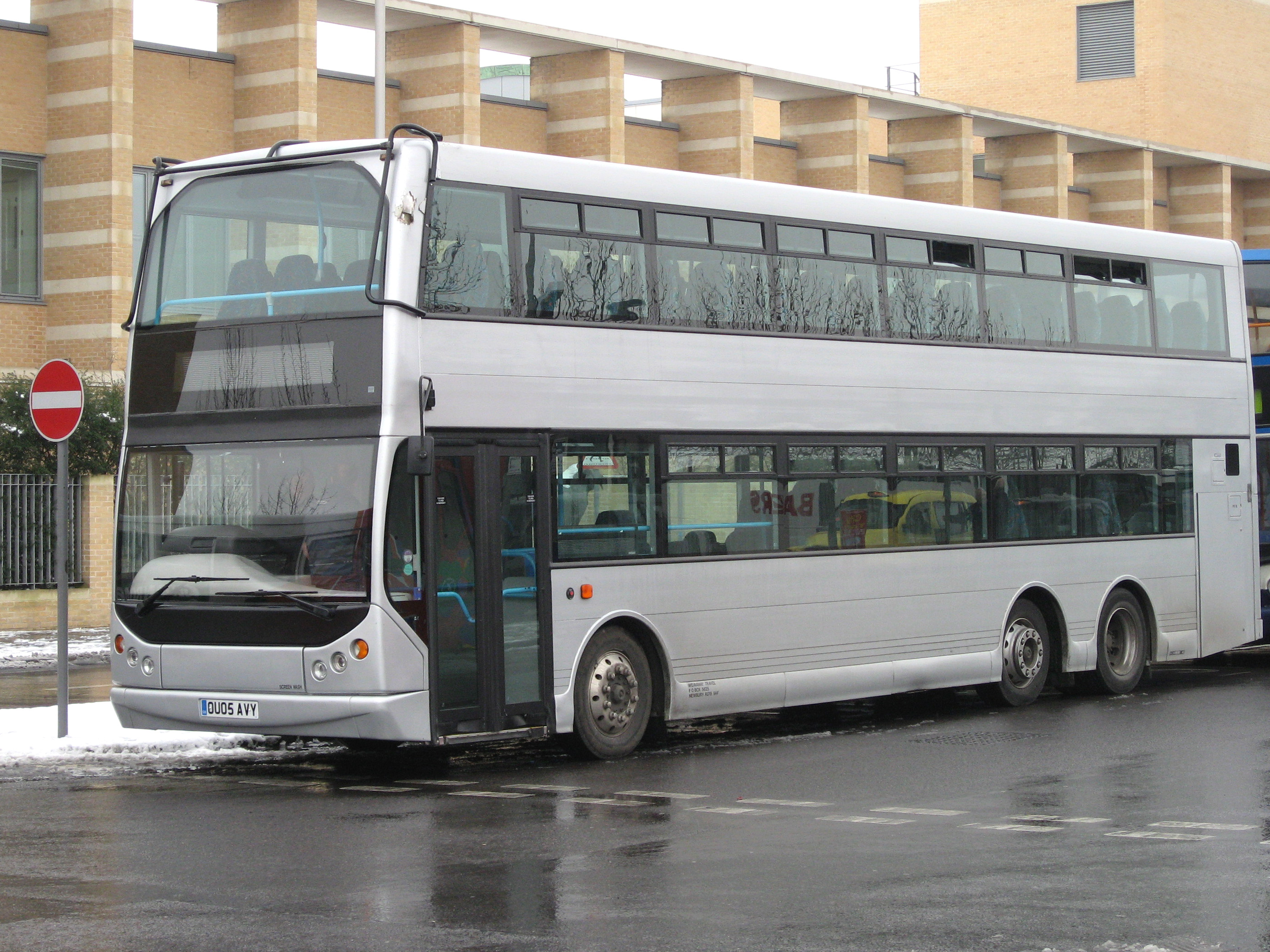 A Weavaway Travel bus on the forecourt of Oxford railway station, Oxfordshire, waiting to provide a rail replacement service. The bus is a Volvo B9TL with an East Lancashire Coachbuilders CH63/39F body, registration mark OU05 AVY.